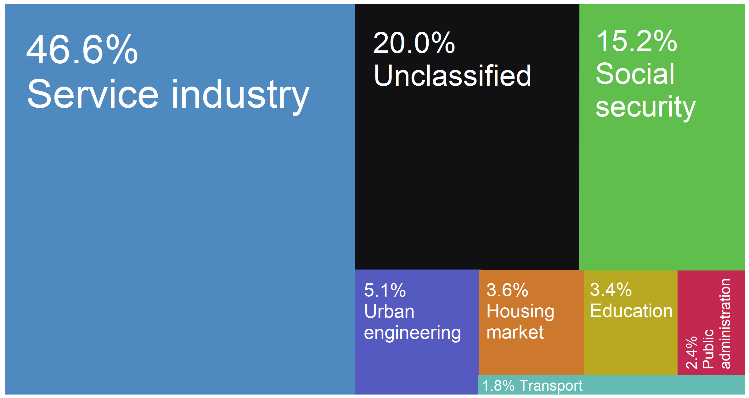 Diagram illustrating the city's budget sources.